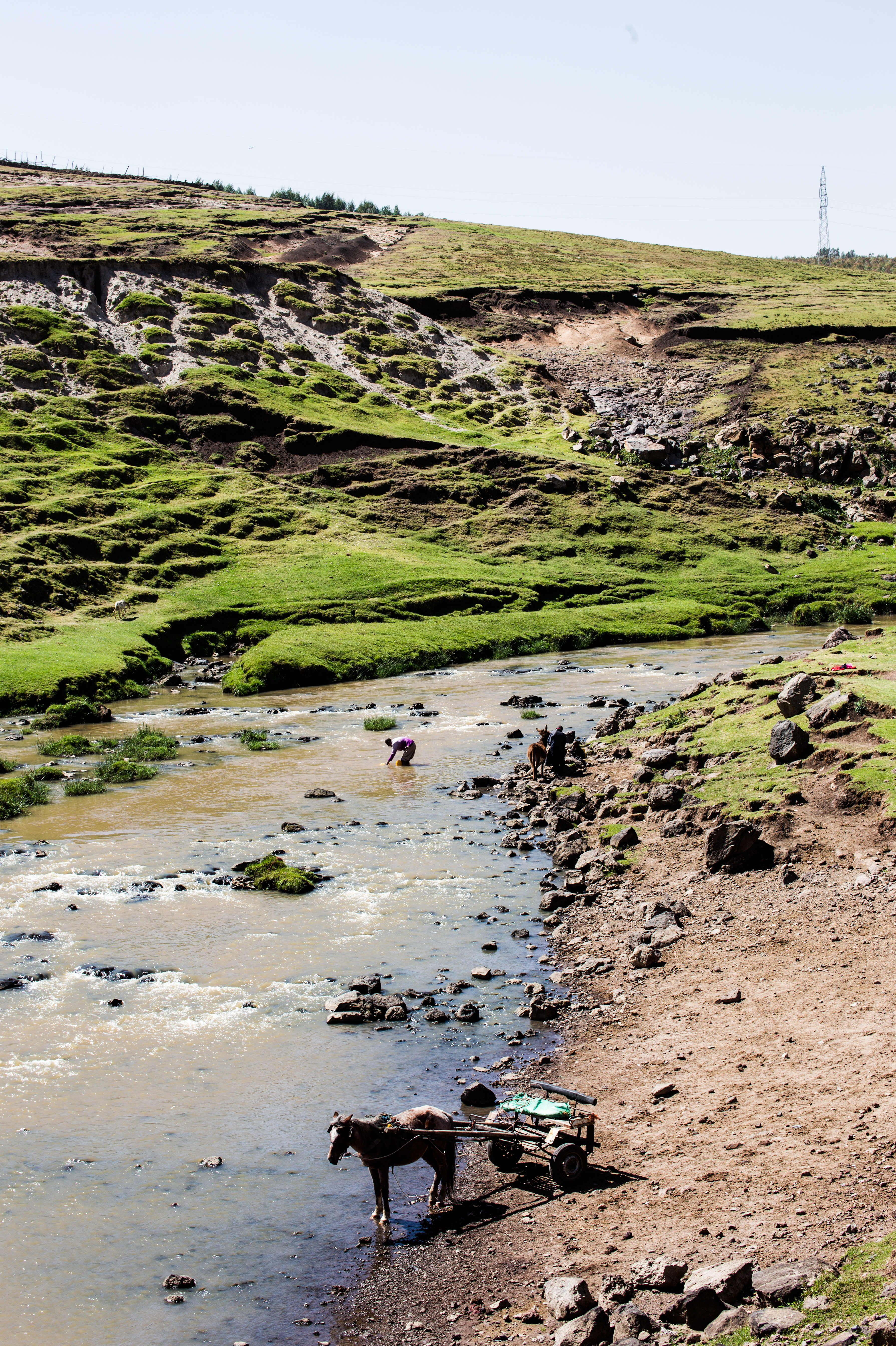 Shebelle River in Ethiopia.